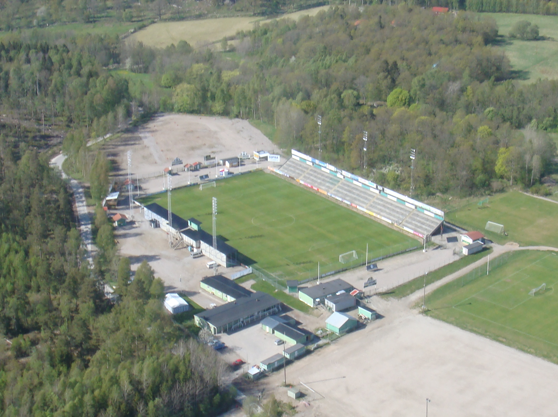 The Ljungskile SK homeground Starke Arvid Arena (2009-05-05) from the skies.